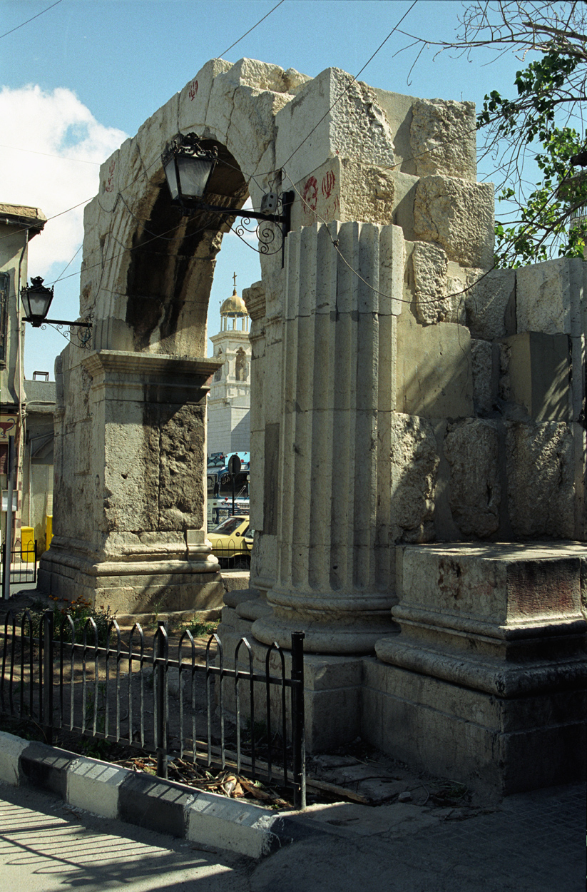 Damascus, Roman Arch